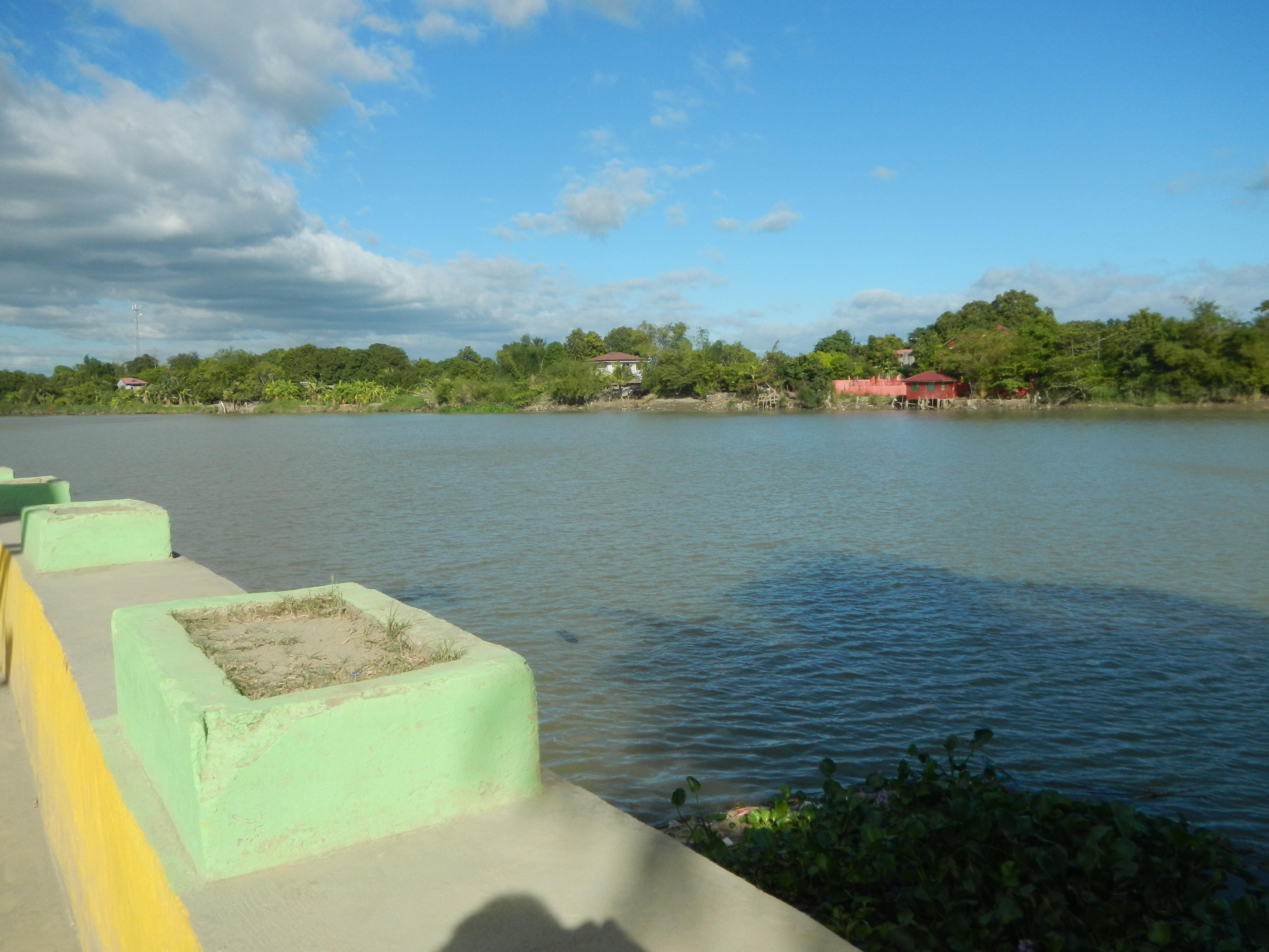 Barangay Meysulao, Calumpit, Bulacan; is beside and bounded by Barangay San Vicente, beside Santa Rita, Batasan and Santa Cruz (Poblacion), Macabebe, Pampanga province bounded by both the converging Calumpit and Pampanga or Rio Grande Rivers (accessed from the Historical-Calumpit-Bridge New Calumpit, Bulacan-Apalit, Pampanga Bridge and Pampanga River, 2016; connecting to Apalit, Pampanga Old and New Sulipan Bridges along the Apalit-Masantol-Macabebe, Pampanga Road interconnecting with the San Simon-Apalit, Pampanga Road, part of the MacArthur Highway (Calumpit, Bulacan, Apalit, Minalin, Santo Tomas and City of San Fernando, Pampanga section) and MacArthur Highway (Calumpit, Bulacan-Apalit, Pampanga section) of MacArthur Highway or Manila North Road).